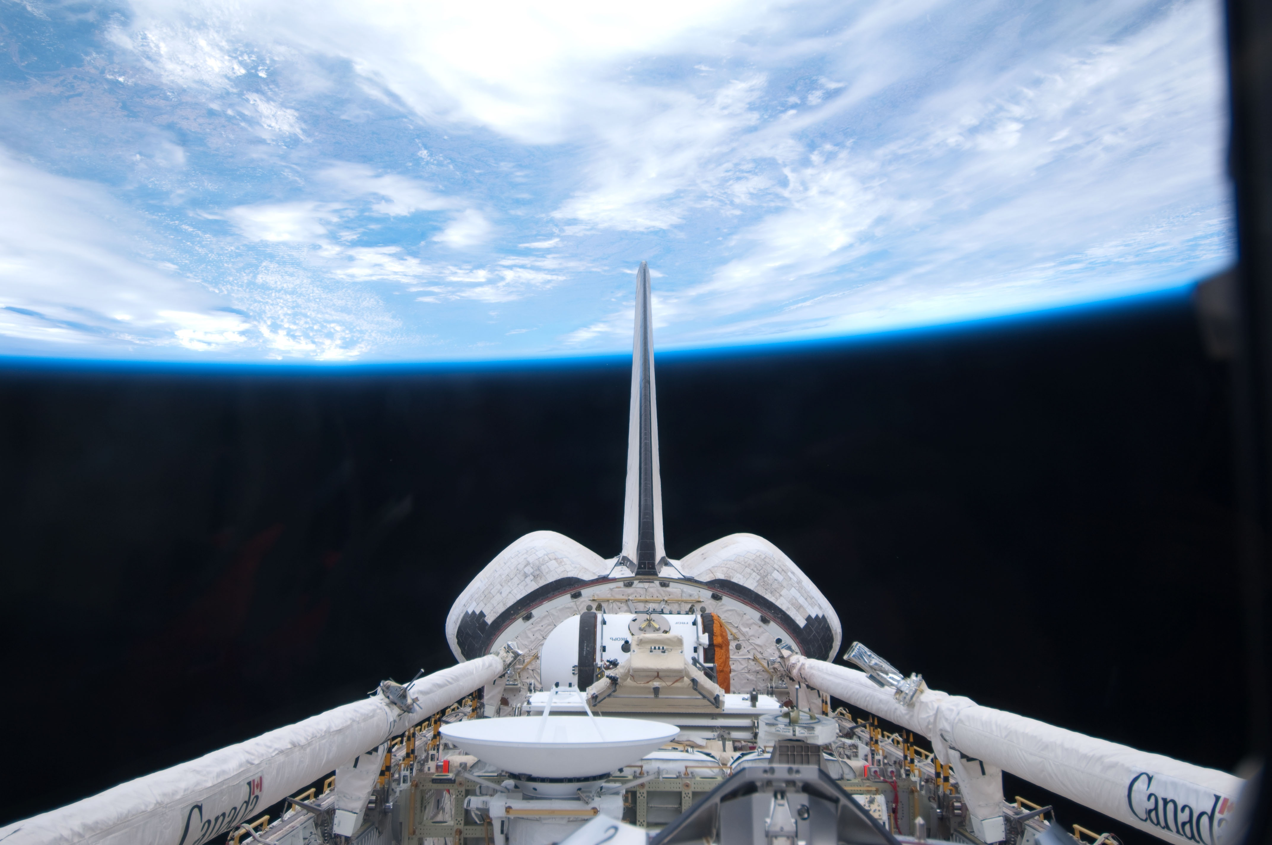 This photograph of space shuttle Atlantis' cargo bay and its vertical stabilizer intersecting Earth's horizon was provided on Flight Day 2 by one of the six STS-132 crew members. The photo was among the initial batch of non-engineering photography downlinked from the Earth-orbiting spacecraft on its final scheduled mission.